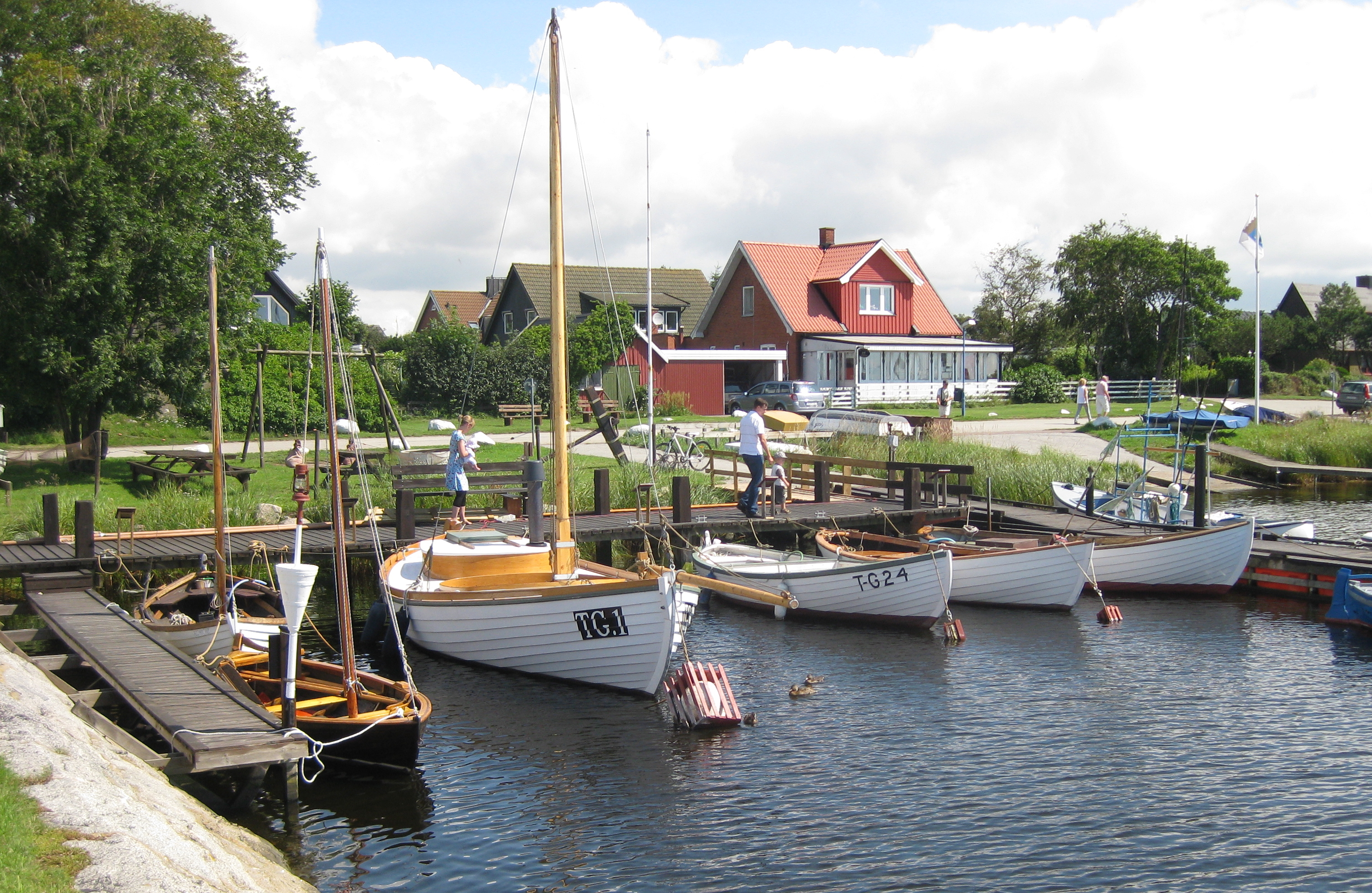 The marina Gislövs läge in Scania, Sweden